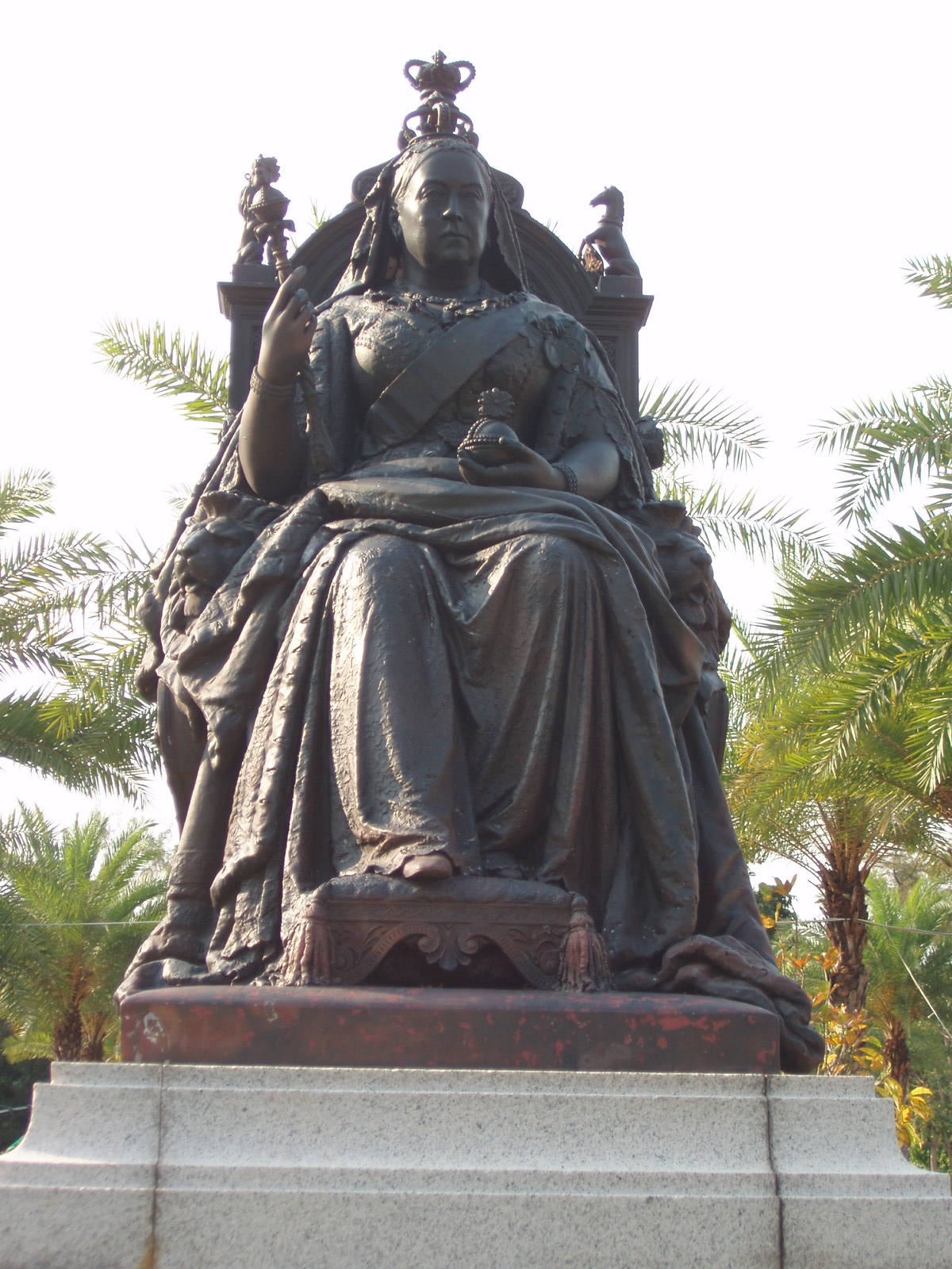 The Statue of Queen Victoria of United Kingdominside the Victoria Park, Hong Kong (close up)